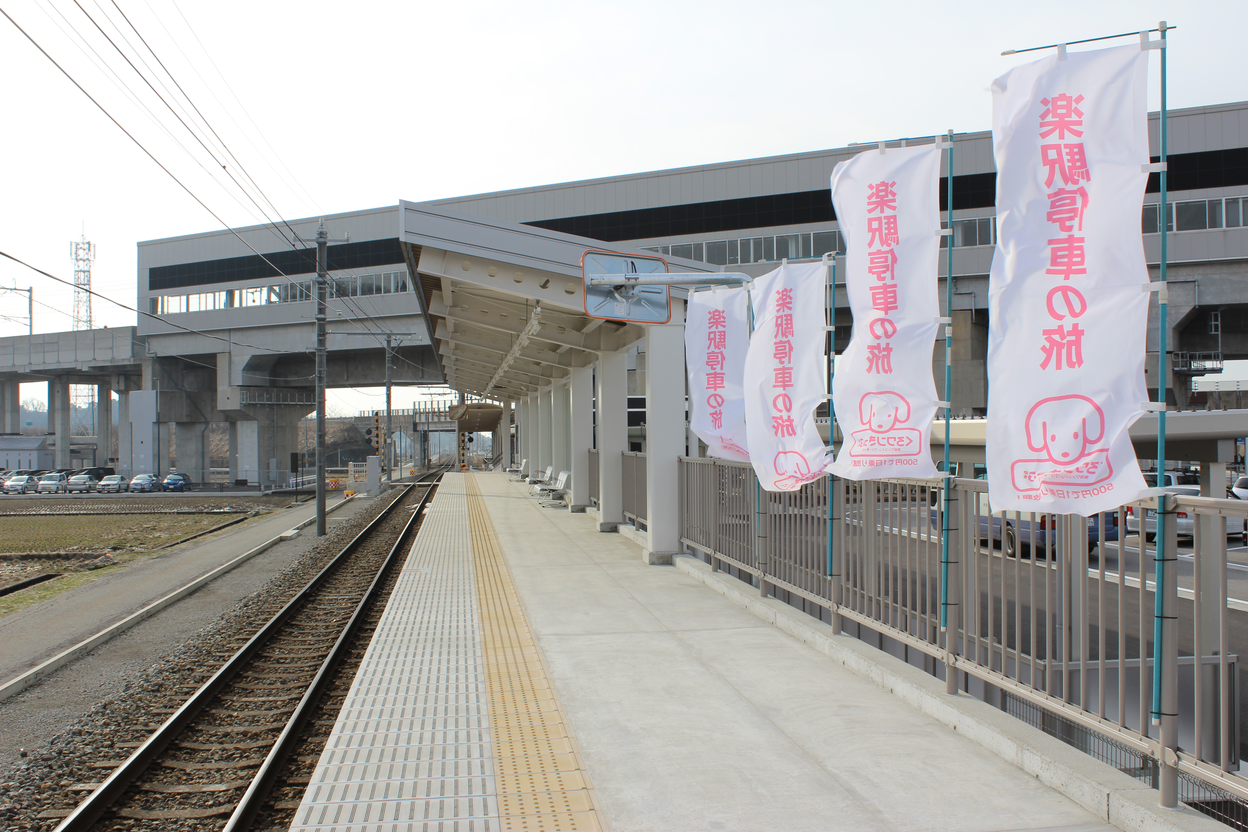 The platform at Shin-Kurobe Station on the Toyama Chiho Railway in Toyama Prefecture, Japan